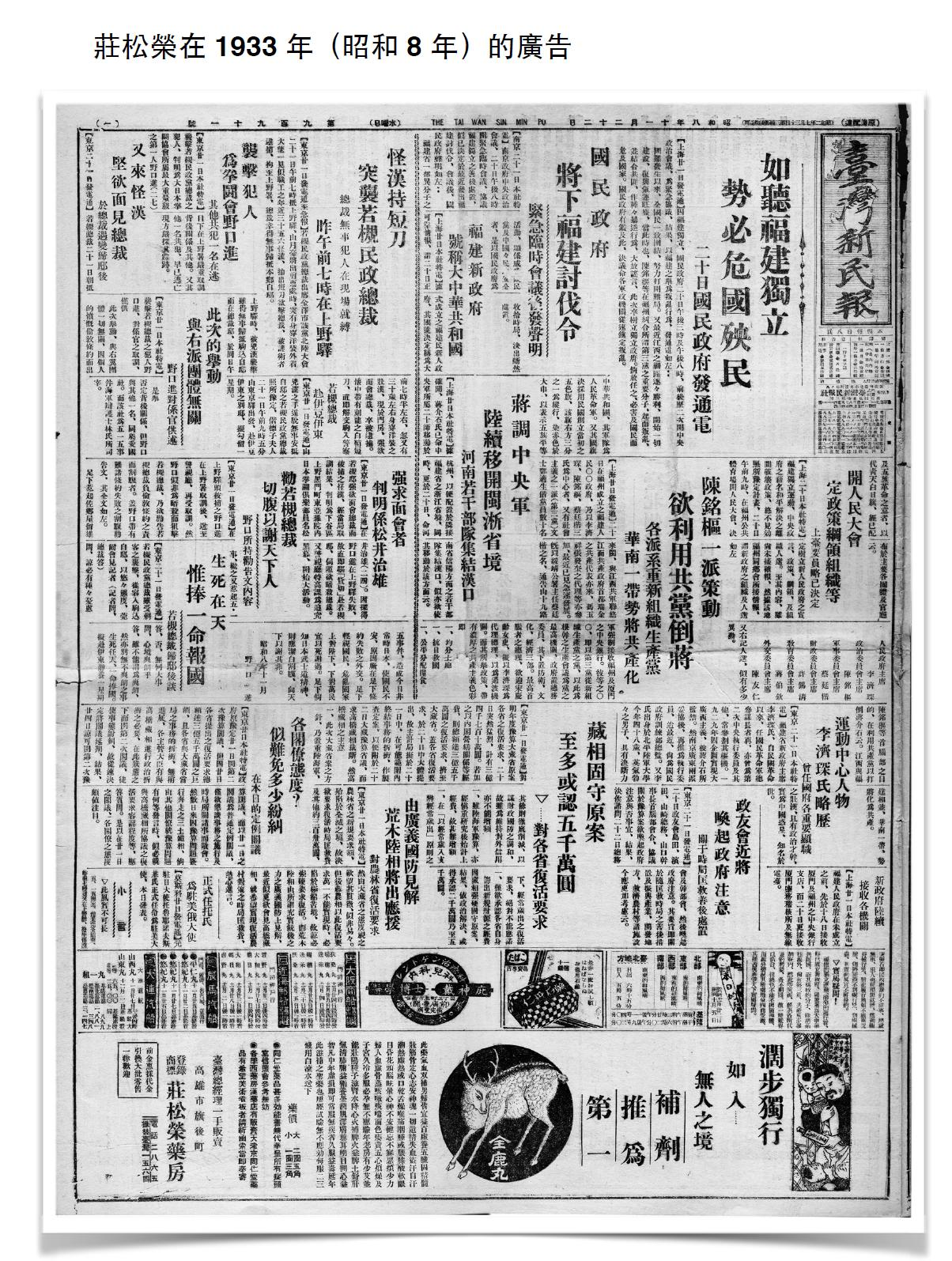 The ads. of Chuang Song Zong in 1933